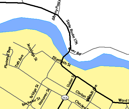 Map showing Ward's Bridge in Montgomery, NY